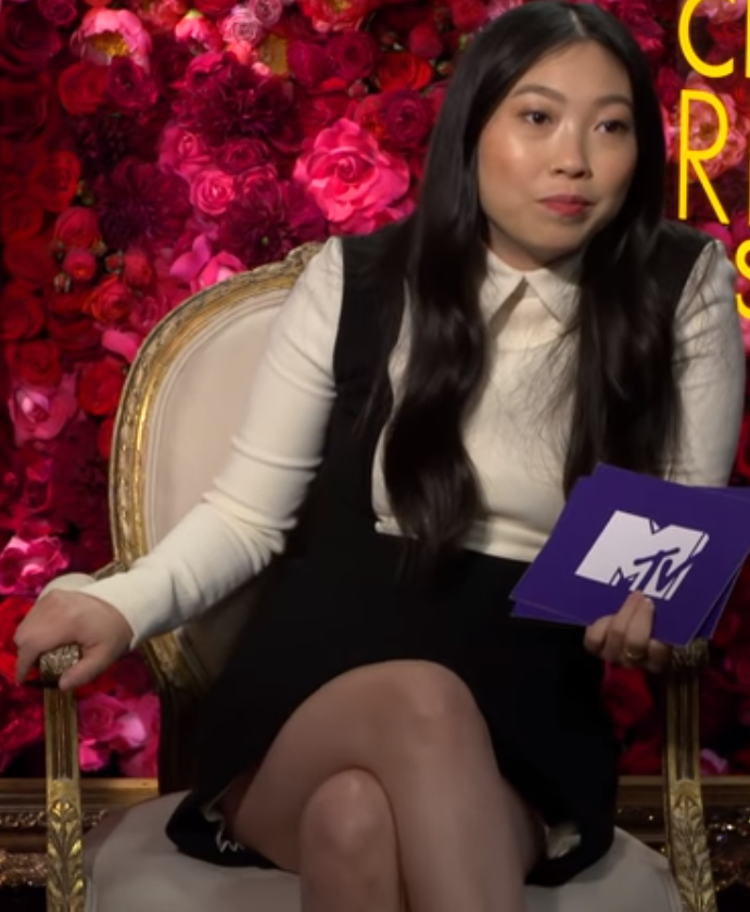 Constance Wu, Henry Golding, Gemma Chan, Ken Jeong and Awkwafina play a hilarious game of Never Have I Ever: CRAZY RICH Edition! Plus, they reveal they were MUGGED BY MONKEYS on set!